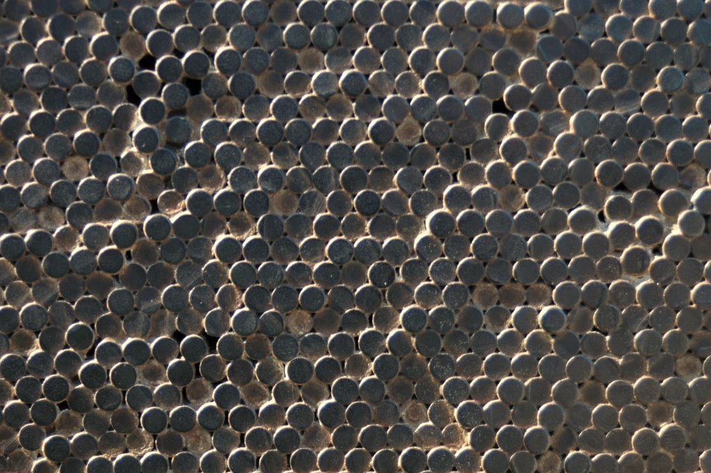 Closeup of wires inside main Golden Gate Bridge cables (27572 wires per cable)